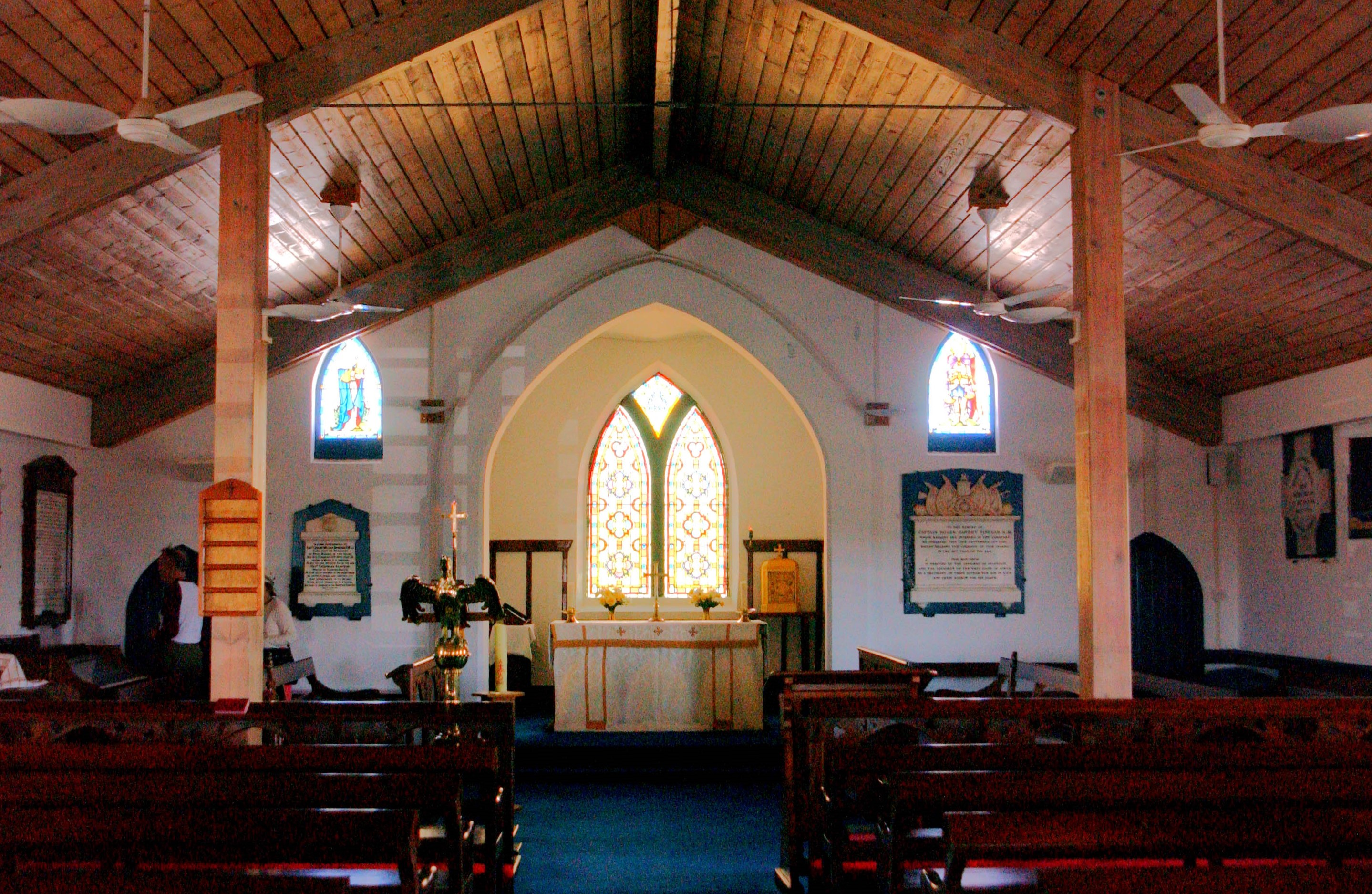 INTERIOR VIEWS OF St. Mary's CHURCH on Ascension Island